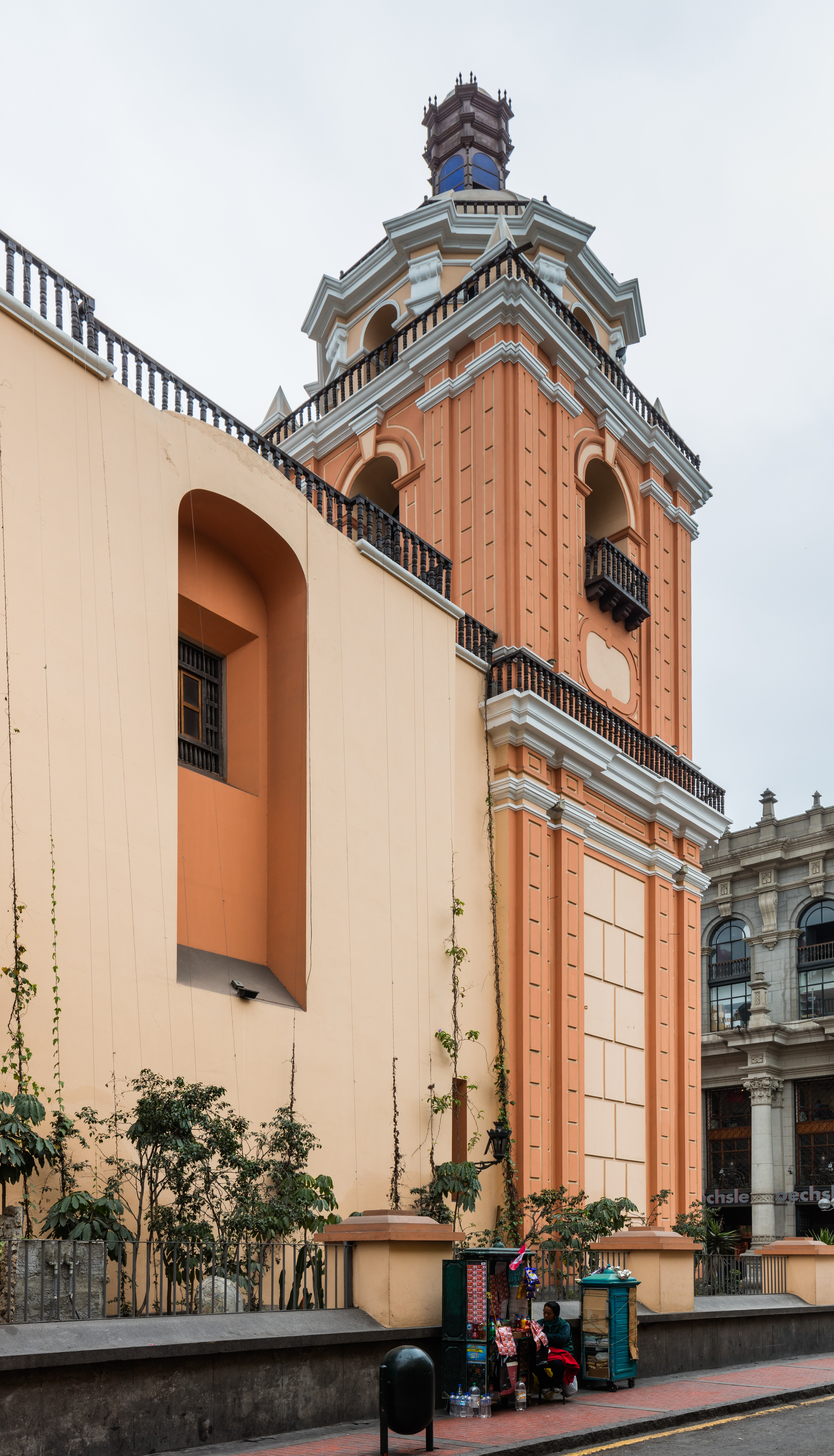 Church of The Mercy, Lima, Peru